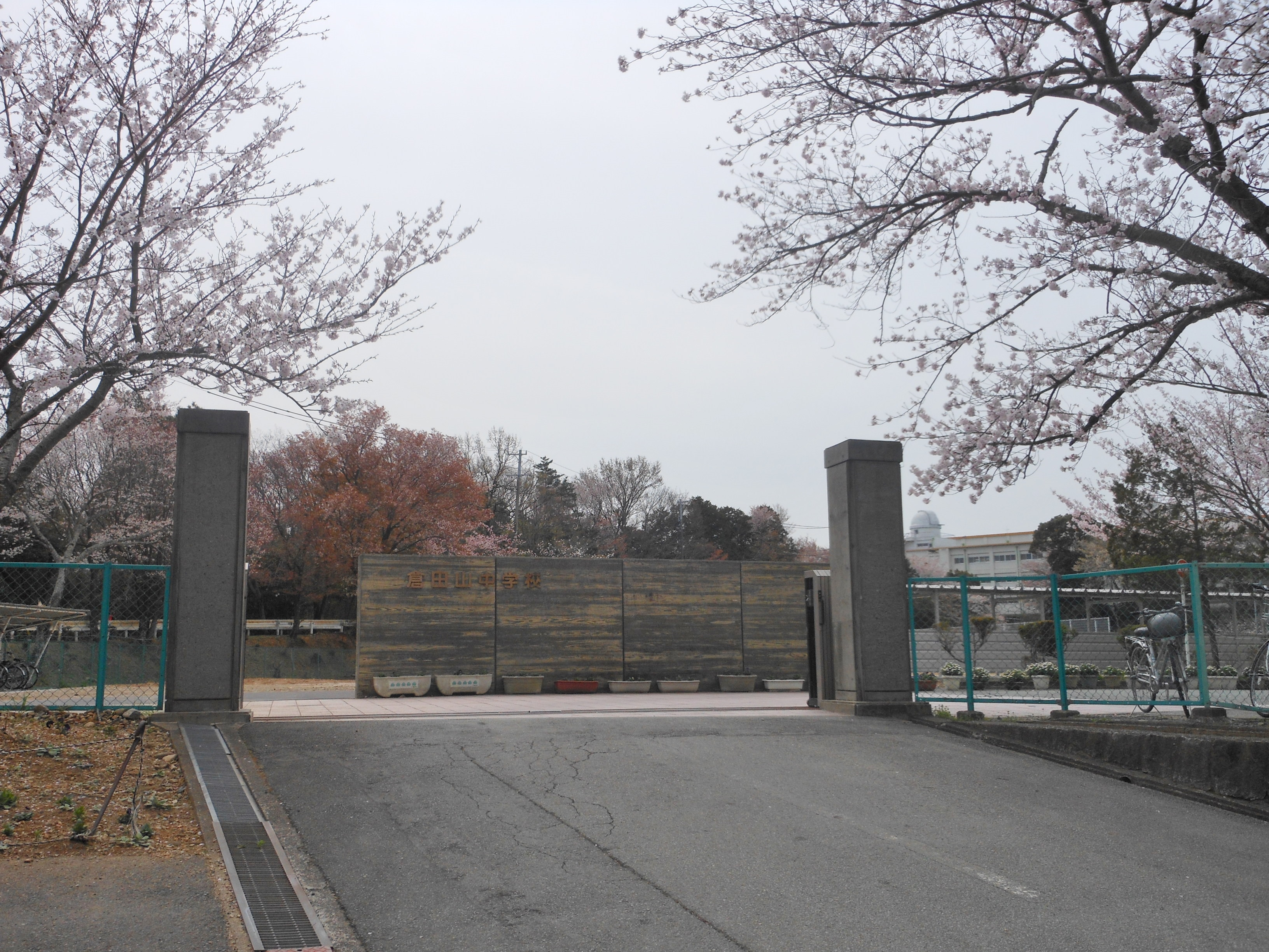 This is a gate for Ise City Kuratayama Junior High School.